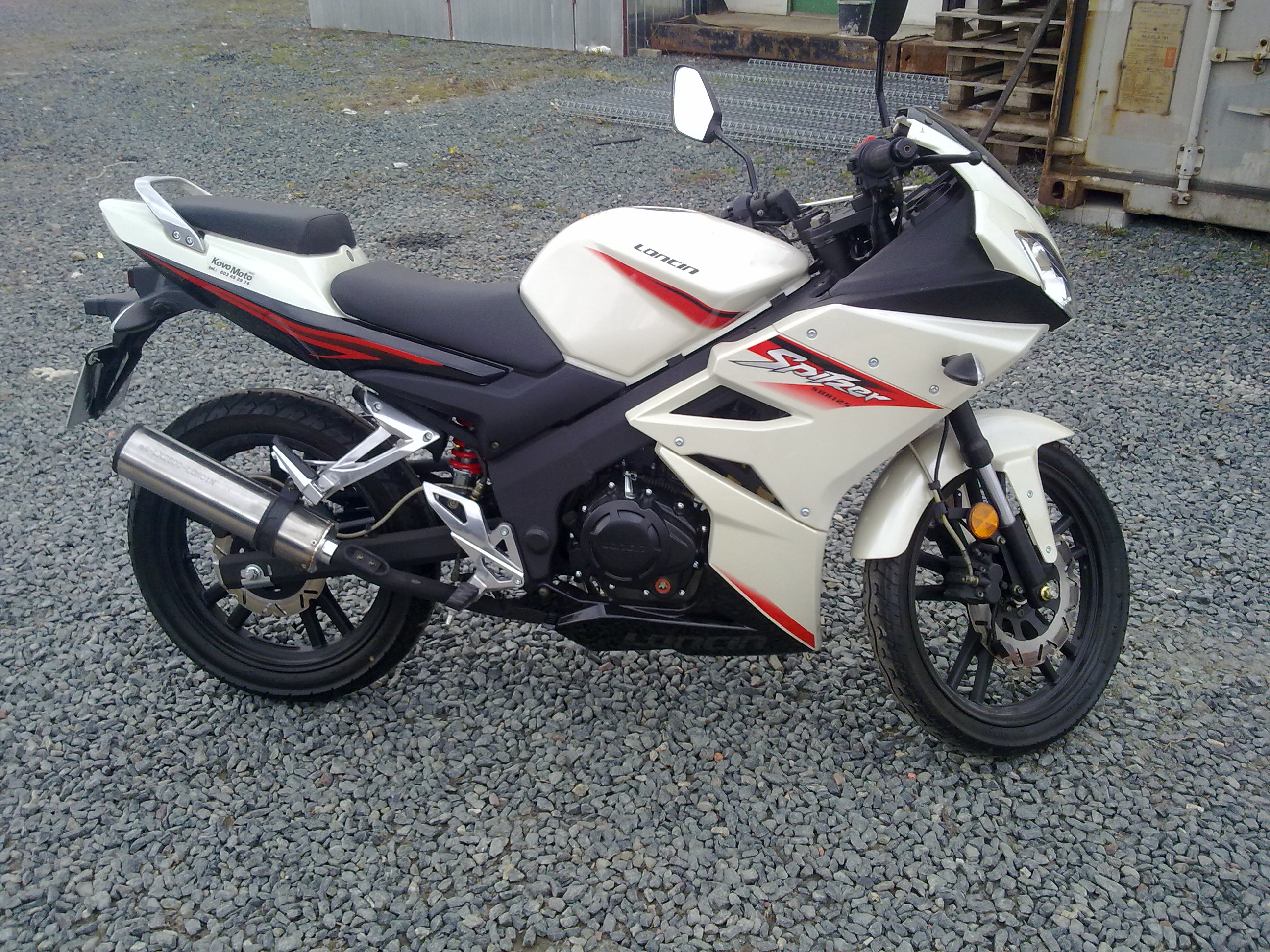 Loncin SBR 125 Spitzer